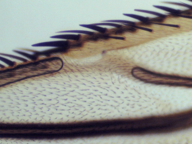 House fly wing magnified 250 times